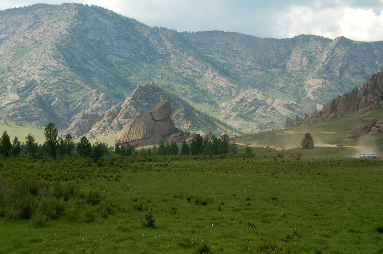 Turtle Rock, Gorkhi-Terelj National Park, Mongolia (picture was taken from a moving car, behind the window...)